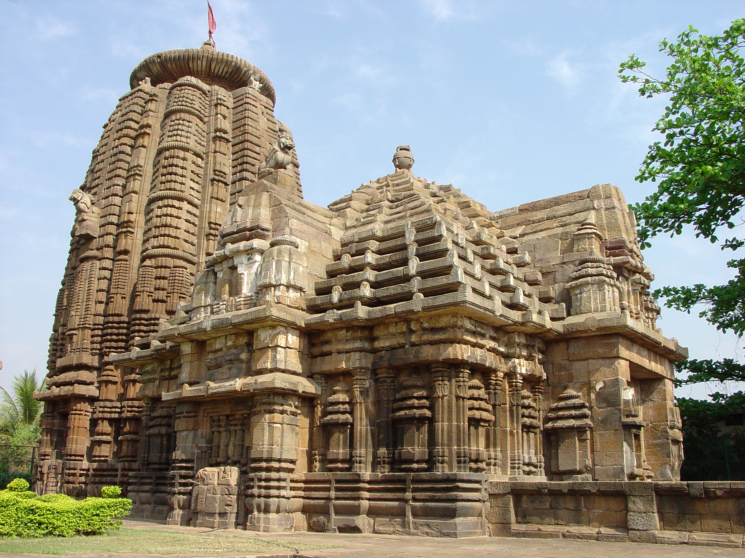 Siddheshvara Temple. Bhubaneshwar, early 11th century Siddheshvara is located directly northwest of Mukteshvara. Its jagamohan rises to a triangle at the apex, but without a ghanta. This temple is erroneously identified as Mukteshvara on several web sites, so don't be confused. Siddheshvara has a more pointed pidha roof, and the sides of its jagamohan project further outward, than Mukteshvara.